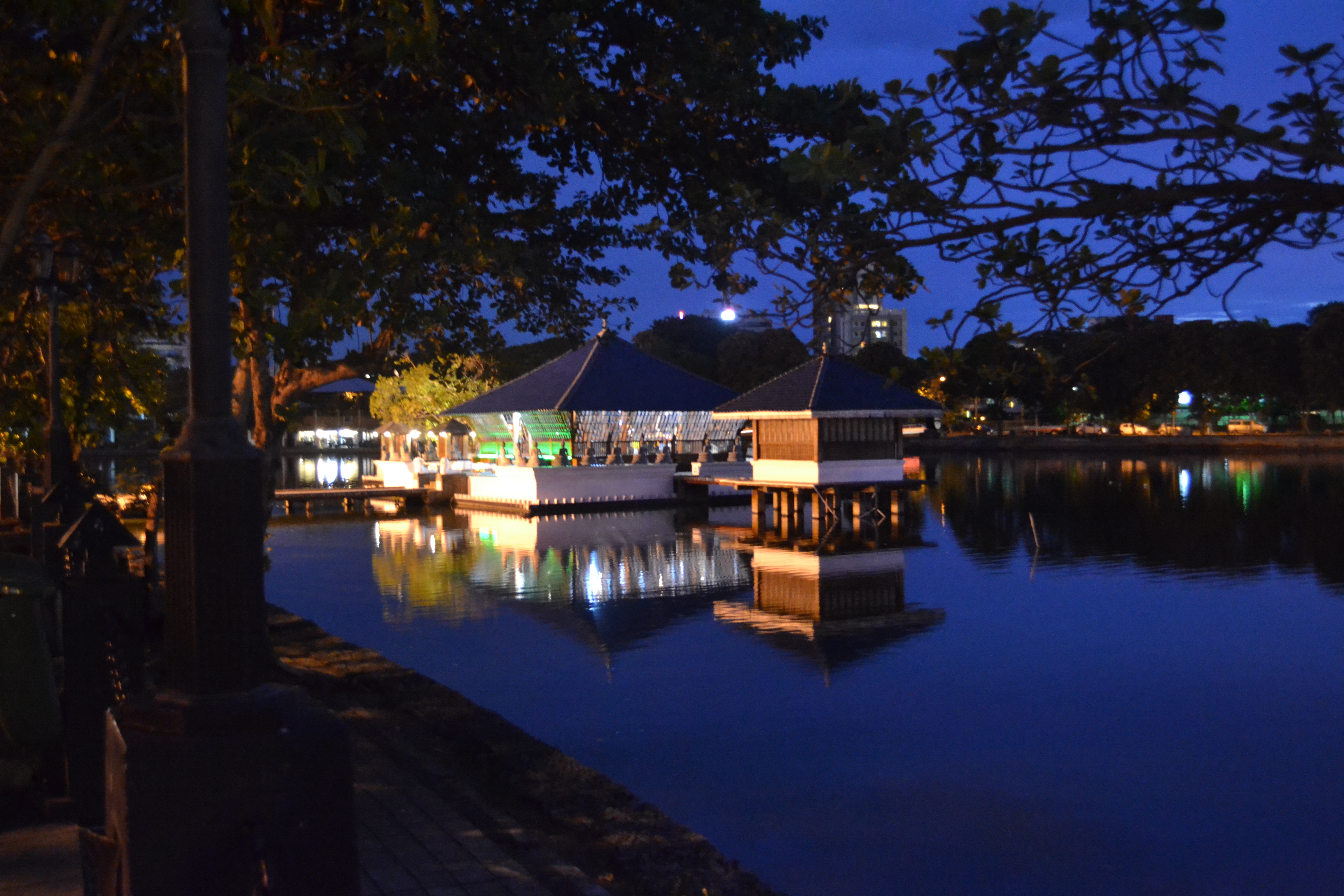 A Buddhist Temple at Muthiah Park, Slave Island, Colombo, Sri Lanka.